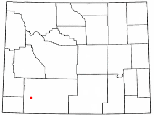 Locator map of Green River, Wyoming. Source